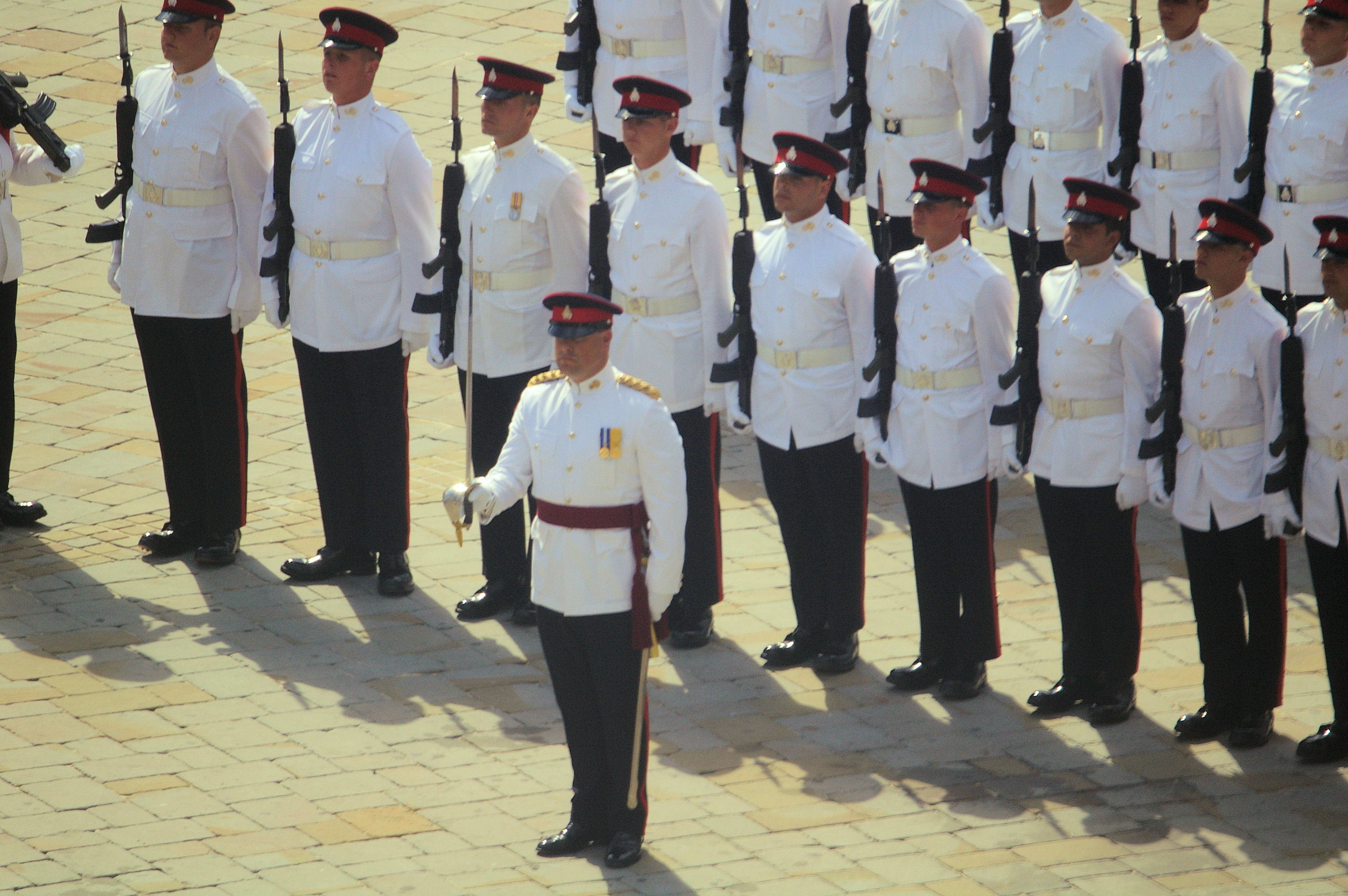 The Royal Gibraltar Regiment at the parade for the Queen's Birthday, Grand Casemates Square, Gibraltar